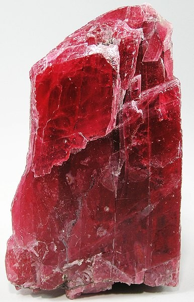 Rhodonite Locality: Conselheiro Lafaiete (old Queluz de Minas), Minas Gerais, Southeast Region, Brazil (Locality at ) Size: 8.4 x 5.2 x 2.8 cm. Recently, a small trickle of incredible rhodonites have come out of this old manganese mine in Brazil, now undergoing much more exploration for specimen potential. They compare favorably to, and in fact are better than most, rhodonites from the classic older locality of Broken Hill. Although the crystal habit is different than those from Broken Hill, for the first time in 60 years or more we have again some rhodonite crystals of size and gemminess. This is a cleavage specimen and not a complete crystal. Weighs 206 grams.